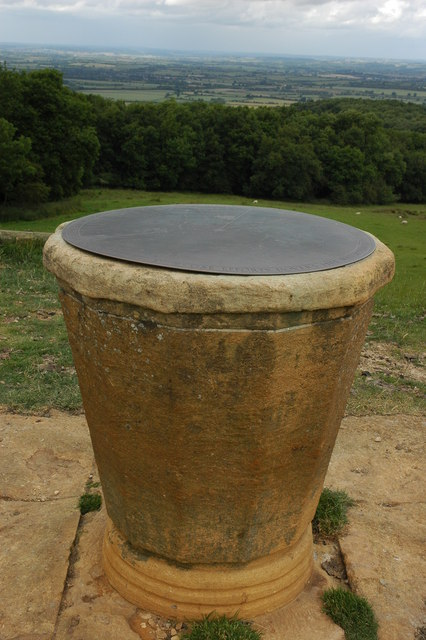 Toposcope on Dover's Hill Dover's Hill on the Cotswold escarpment provides a good location to view the Vale of Evesham and beyond.